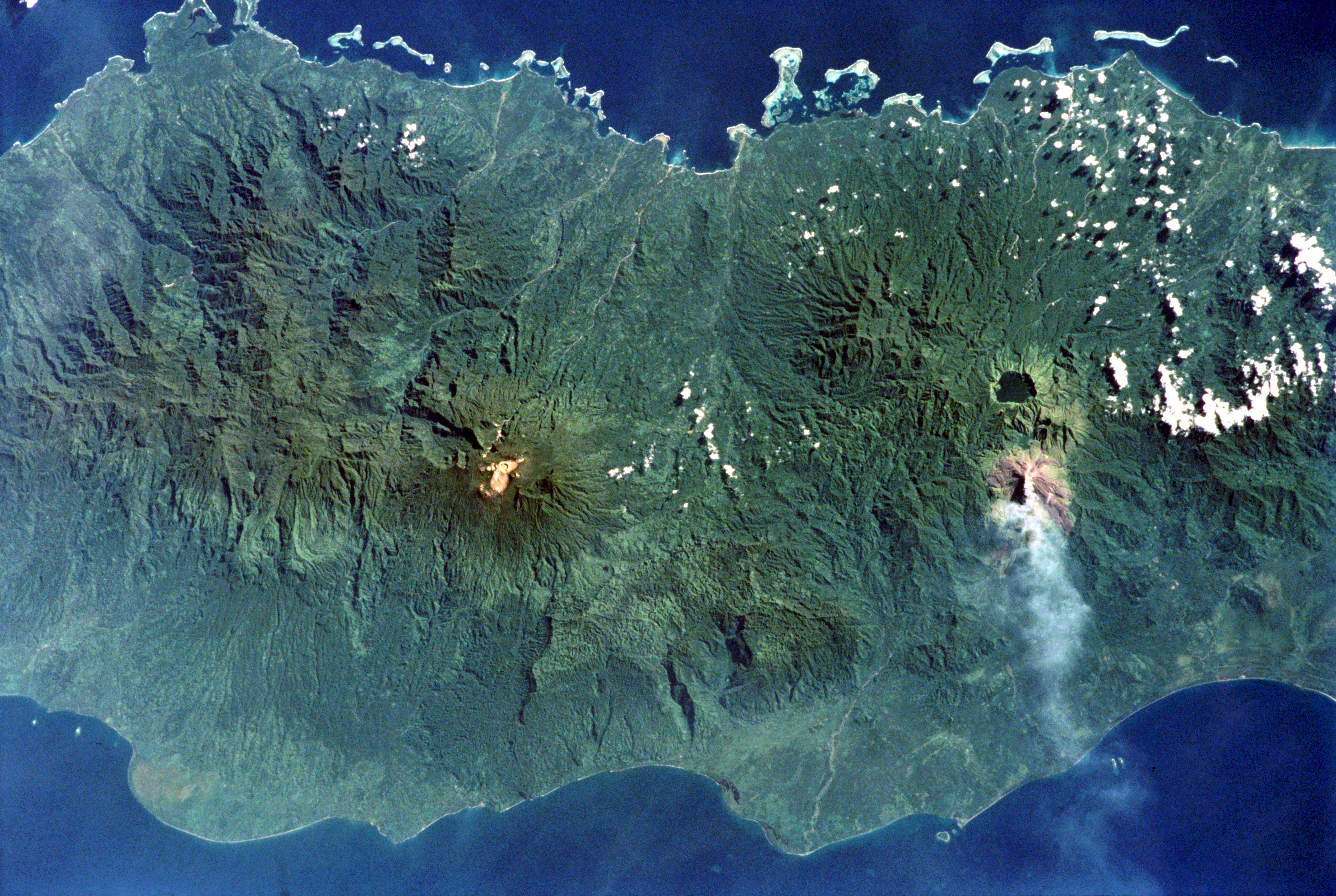 Much of the left side of this NASA image with north to the upper left is covered by volcanic products from Tore (volcano) in the Emperor Range on NW Bougainville Island. The Tore massif lies to the left of the light-colored area at the center of the image, Mount Balbi volcano. The dark-colored caldera lake of Billy Mitchell (volcano) is at the right, above an ash plume originating from Bagana volcano. Papua New Guinea